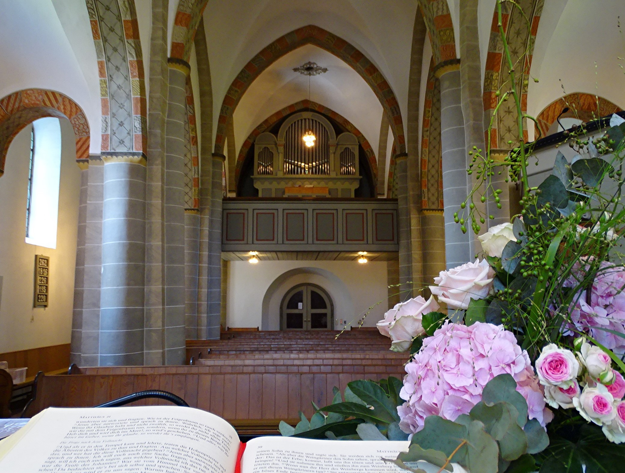 Church Oberholzklau Indoor